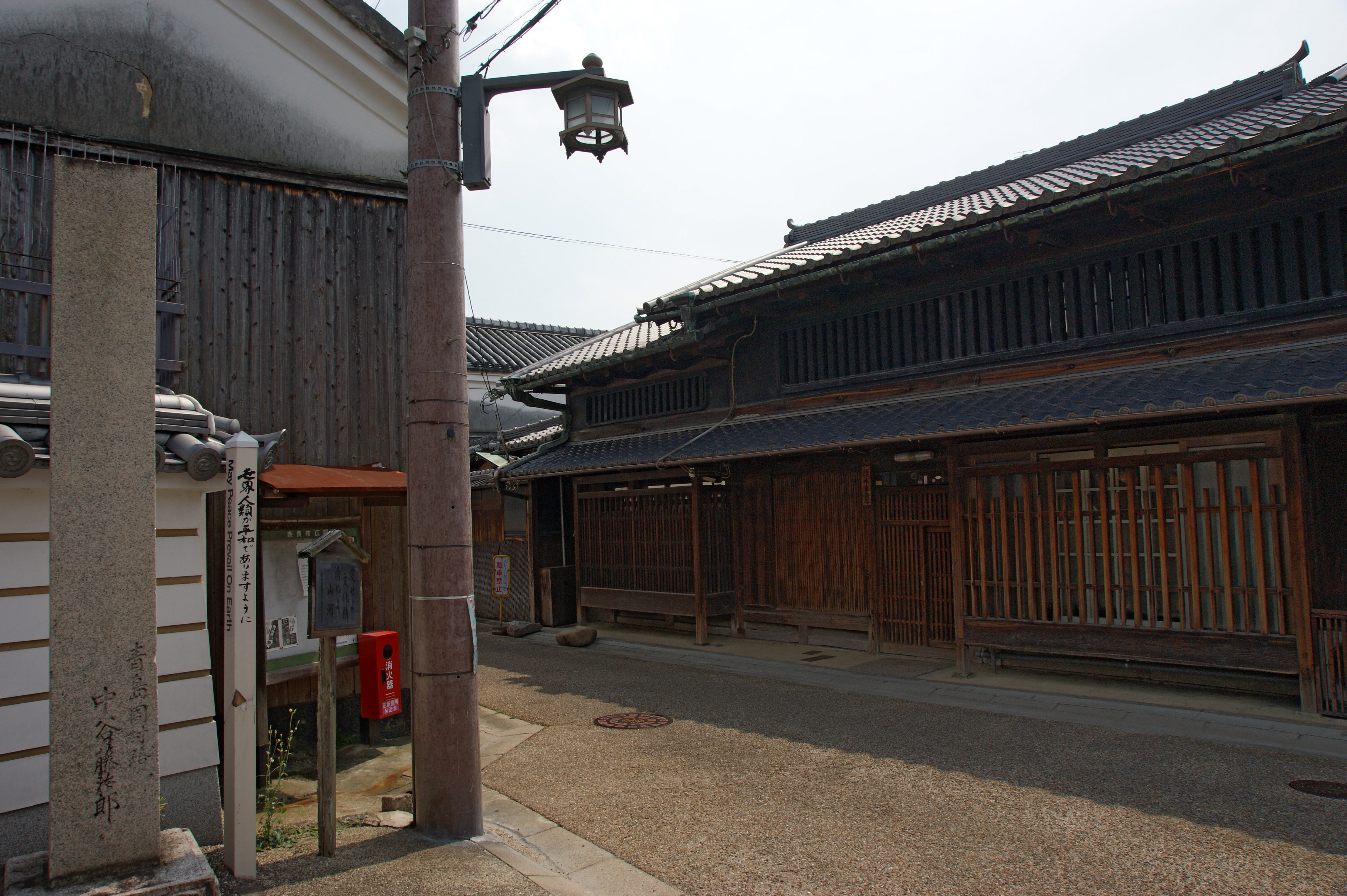 Naramachi in Nara, Nara prefecture, Japan